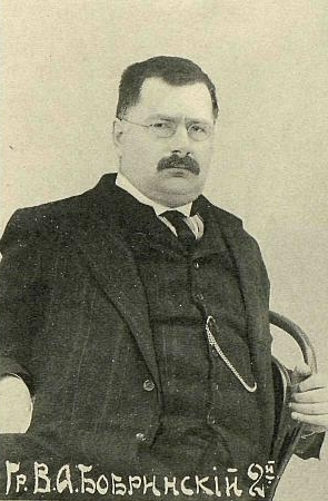 Vladimir Alexeevich Bobrinskiy